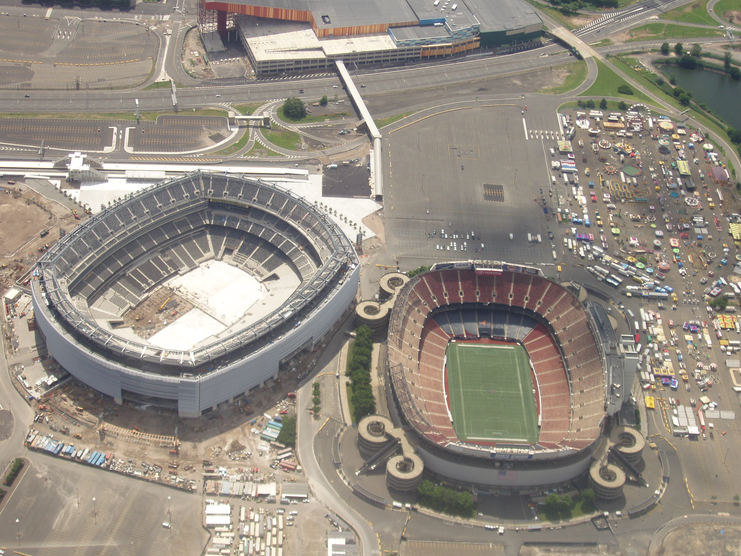 View from an aircraft on approach to Newark-Liberty International Airport (EWR) of MetLife Stadium (under construction) and Giants Stadium in July 2009.